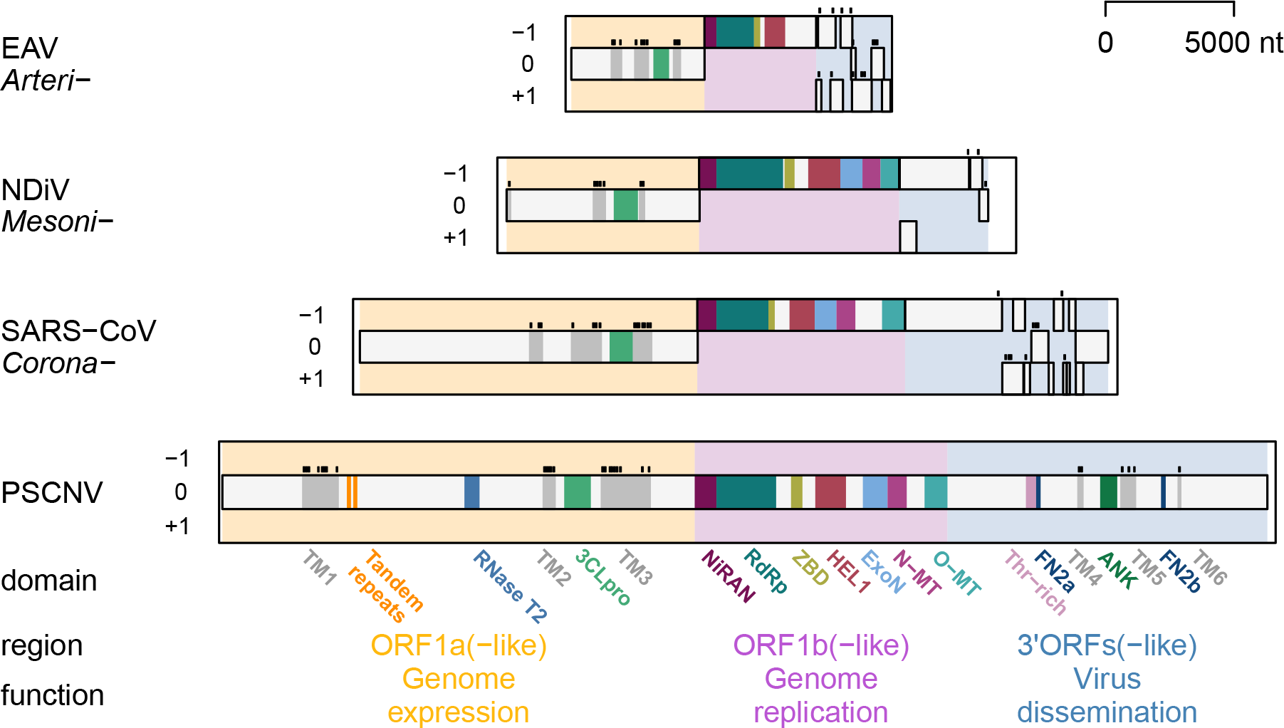 Genomes and proteomes of nidoviruses. ORFs and encoded protein domains in genomes of viruses representing three nidovirus families and PSCNV. The protein-encoding part of the genomes is split in three adjacent regions, which are colored and labelled accordingly. EAV, equine arteritis virus; NDiV, Nam Dinh virus; SARS-CoV (see S1 Table for details on these viruses). ORF1a frame is set as zero. Protein domains conserved between these nidoviruses and PSCNV, and those specific to PSCNV are shown. TM, transmembrane domain (TM helices are shown by black bars above TM domains); Tandem repeats, two adjacent homologous regions of unknown function; RNase T2, ribonuclease T2 homolog; 3CLpro, 3C-like protease; NiRAN, nidovirus RdRp-associated nucleotidyltransferase; RdRp, RNA-dependent RNA polymerase; HEL1, superfamily 1 helicase with upstream Zn-binding domain (ZBD); ExoN, DEDDh subfamily exoribonuclease; N-MT and O-MT, SAM-dependent N7- and 2’-O-methyltransferases, respectively; Thr-rich, region enriched with Thr residue; FN2a/b, fibronectin type 2 domains; ANK, ankyrin domain.